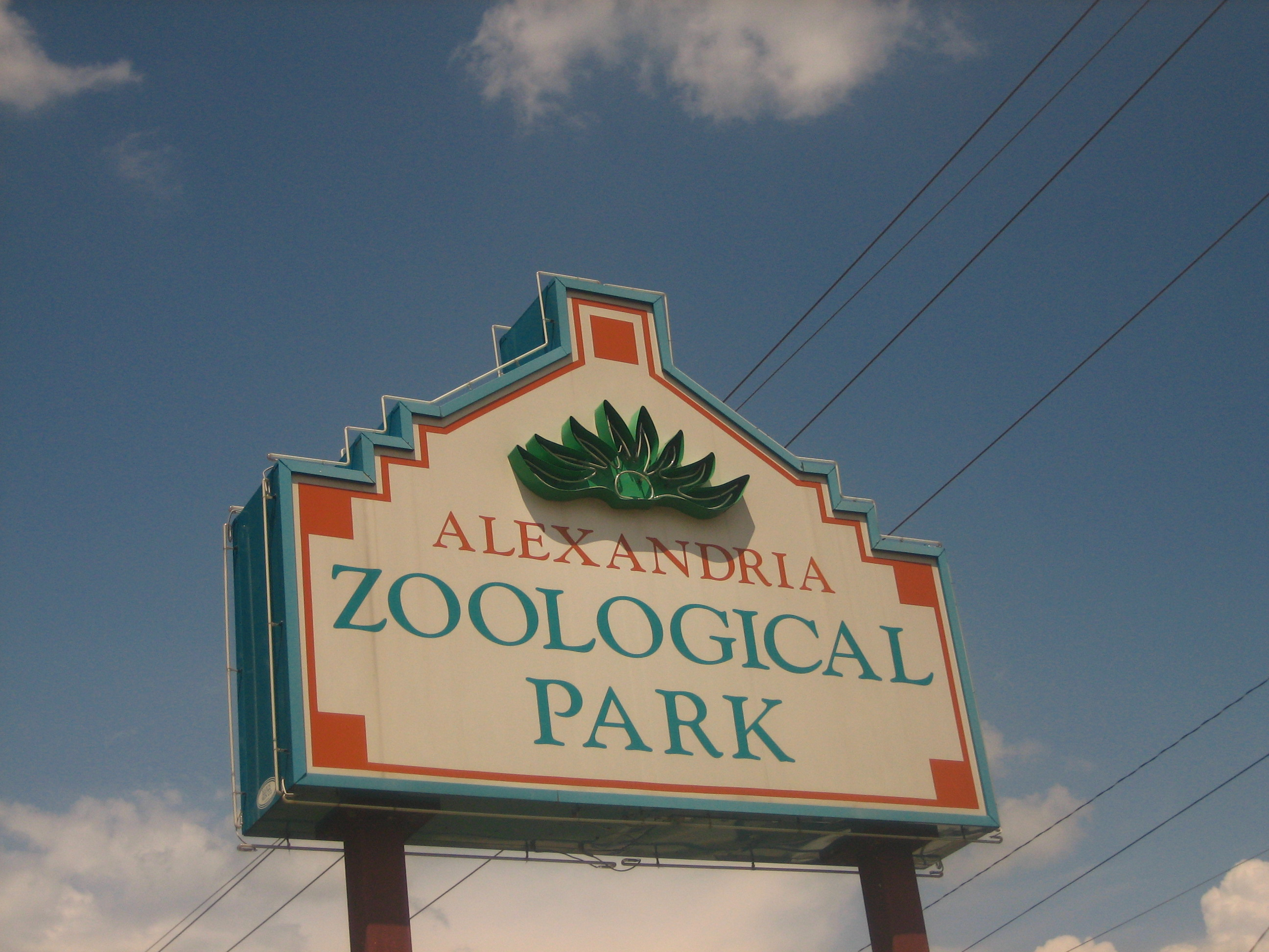 I took photo on Aug. 1, 2008.Billy Hathorn (talk) 11:34, 19 August 2008 (UTC)